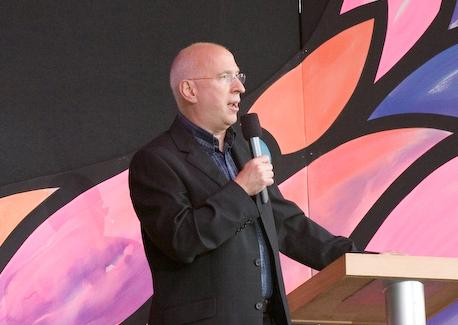 Ken Bruce at BBC Proms in the Park 2006